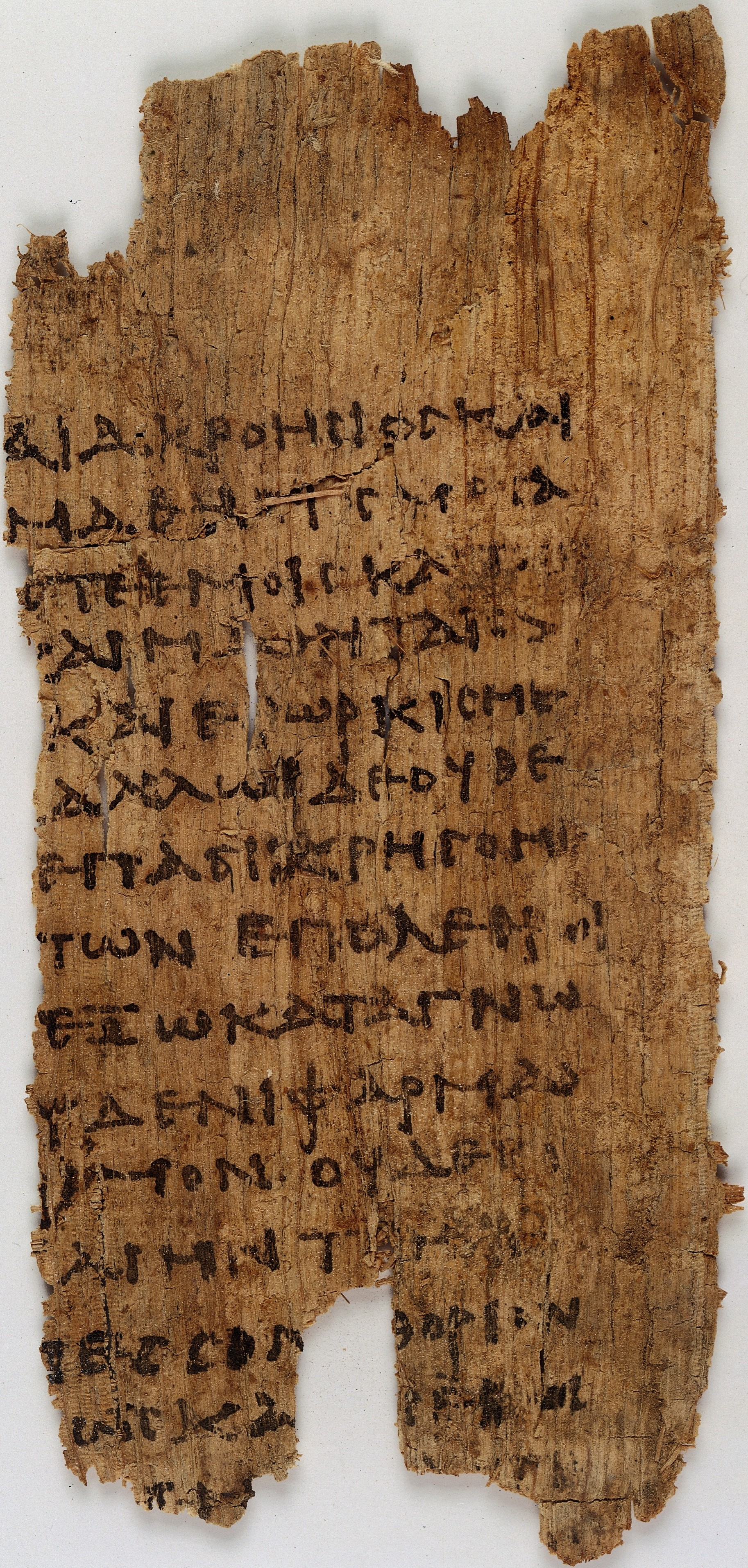 Papyrus text: fragment of Hippocratic oath: verso, showing oath. Archives & Manuscripts Keywords: Hippocratic Oath; Hippocrates